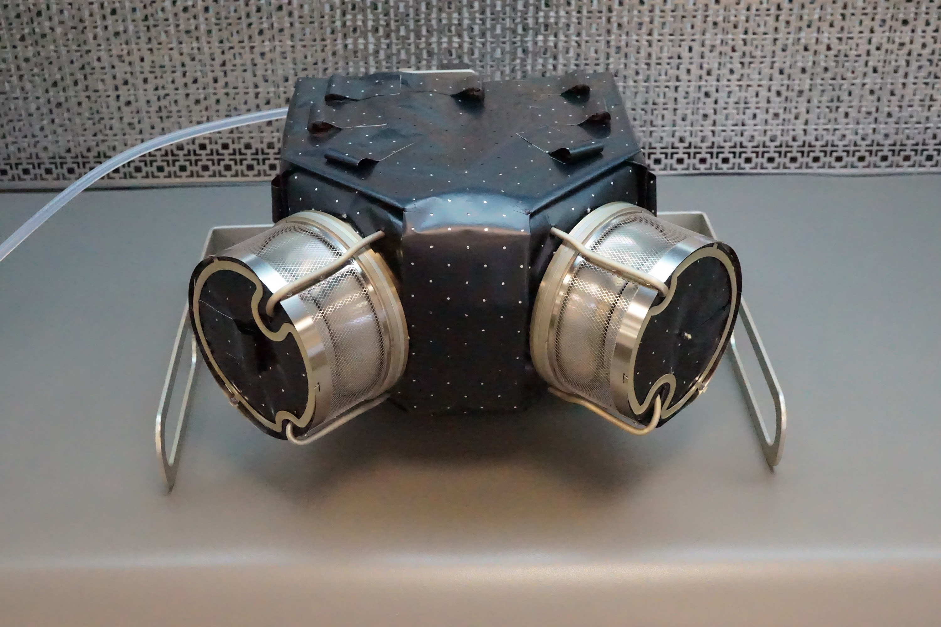 The photograph shows the flight model of the Electrostatic Analyser System (EAS), which is part of the Solar Wind Analyser (SWA) Suite of instruments to be launched on the European Space Agency's Solar Orbiter mission. SWA is an international consortium providing 3 sensors and a joint data processing unit. UCL/MSSL is the lead institution (I am the Principal Investigator for the full suite). EAS in particular was designed, built and tested within the UCL/MSSL facilities and will be delivered to ESA for integration to the Solar Orbiter spacecraft at the end of this month. The spacecraft is being assembled at Airbus UK in Stevenage. Solar Orbiter will travel in close to the Sun (inside the orbit of Mercury) and move to high solar latitudes in order to view the poles of the Sun. Data recorded during its (up to 10 year) mission will help answer scientific questions on how the Sun creates and controls the heliosphere. Launch will be in Feb 2019 or Feb 2020. In the photograph you can see the 2 cylindrical analyser heads which together can scan the full sky to detect electrons of solar origin arriving at the spacecraft. These are mounted with axes at right angles to each other on the control electronics box, which can be seen covered in its black MLI (multi-layered insulation) jacket. Although the Solar Orbiter spacecraft will need to deal with the heat of the near-Sun environment, EAS will be mounted on a boom and always in the shadow of the spacecraft. The MLI thus protects the instrument from the effects of extreme cold associated with exposure to deep space. Professor Chris Owen, November 2017